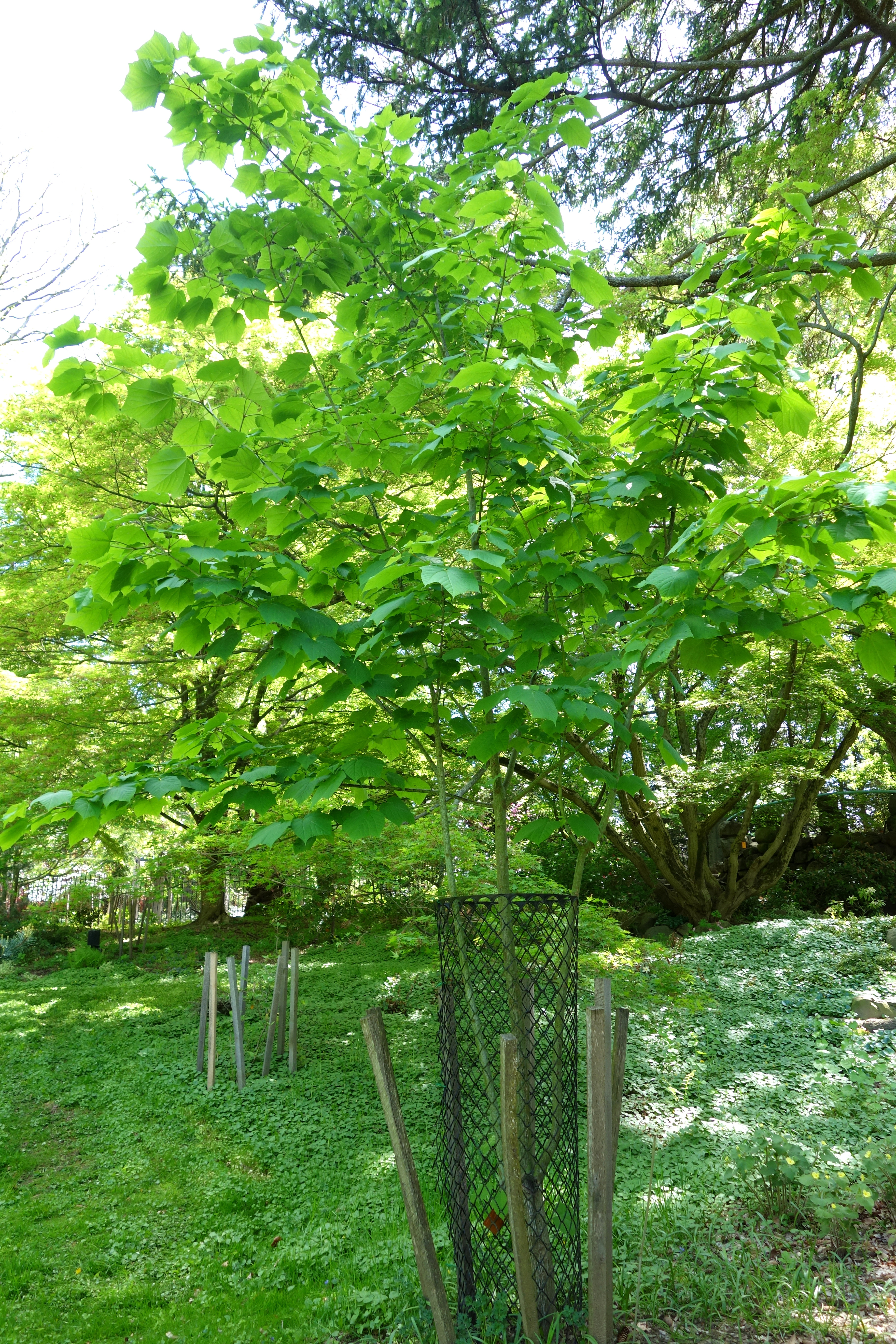 Botanical specimen in the Morris Arboretum, 100 East Northwestern Avenue, Chestnut Hill, Philadelphia, Pennsylvania, USA.